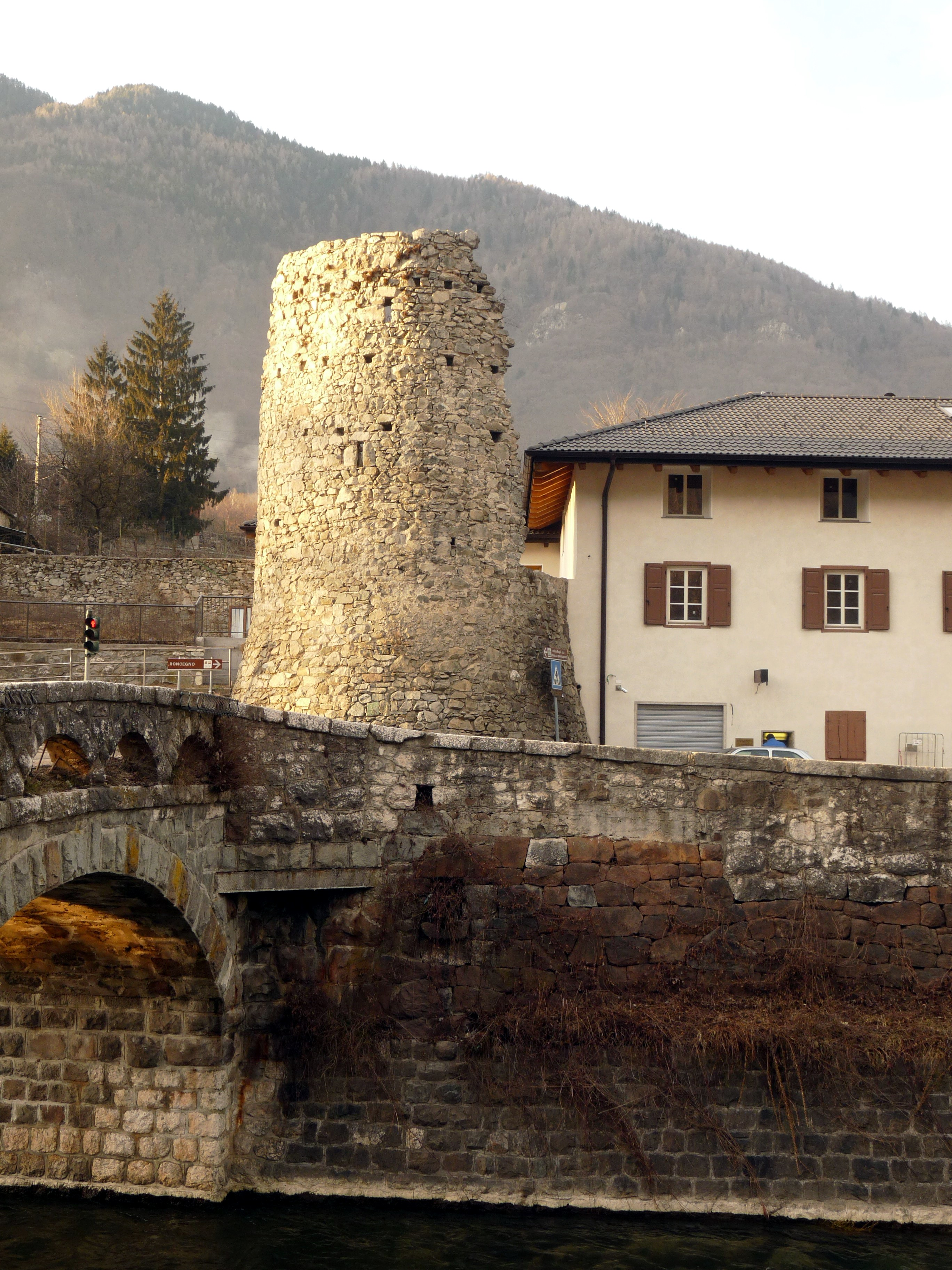 Roncegno Terme (Italy): view of the so-called Tor Tonda in the village of Marter (with the Brenta river below).